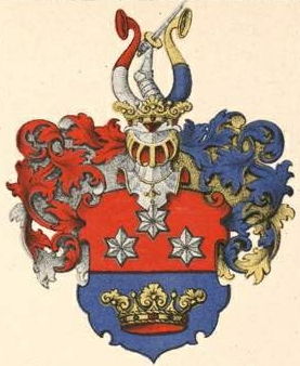 Coat of Arms of Günzel noble family.